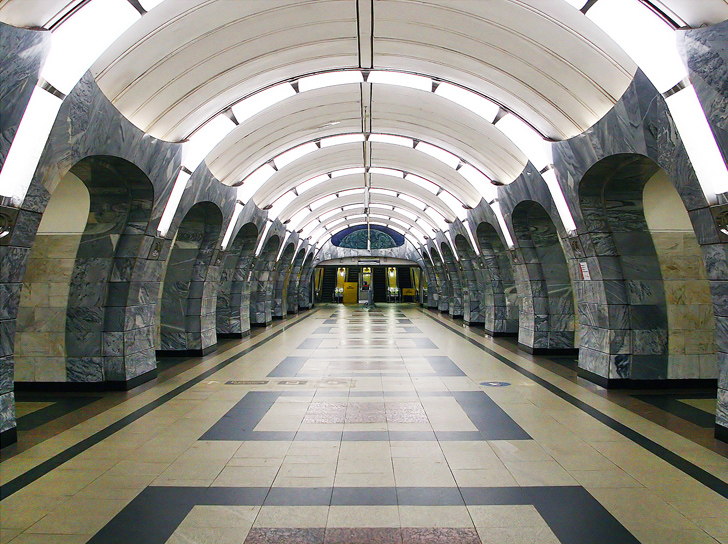 An image of the Moscow metro station Chkalovskaya